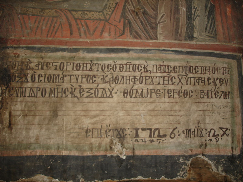 Saint Paraskevi Church, Tranovalto Fresco